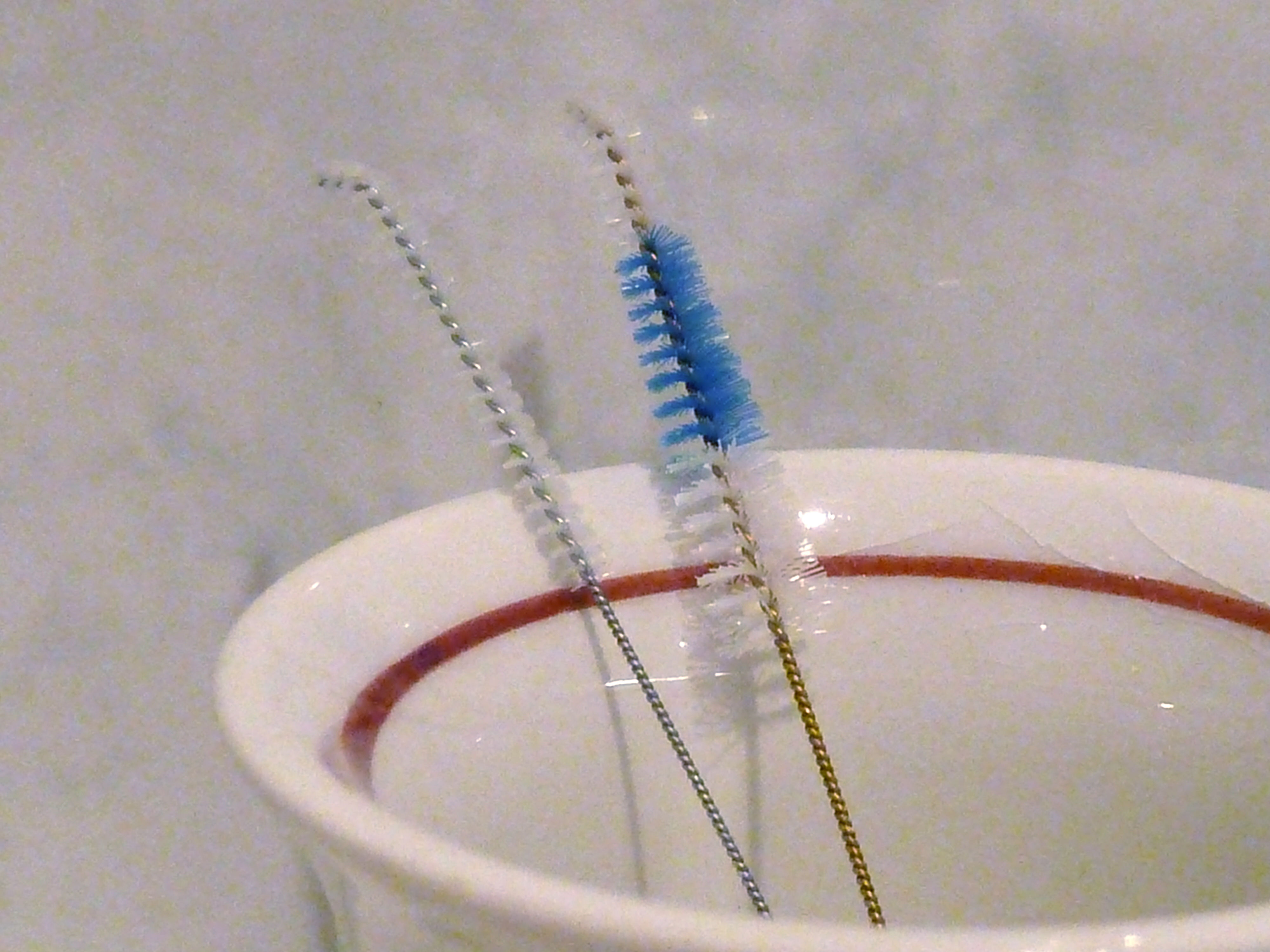 Two Interdental-brushes in an egg cup.